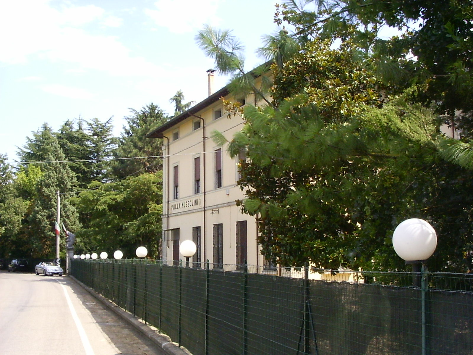 Villa Carpena outside Forlì, residence of the Mussolini family